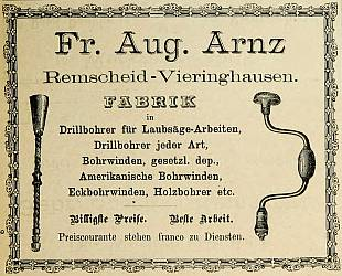 Anzeige 1883